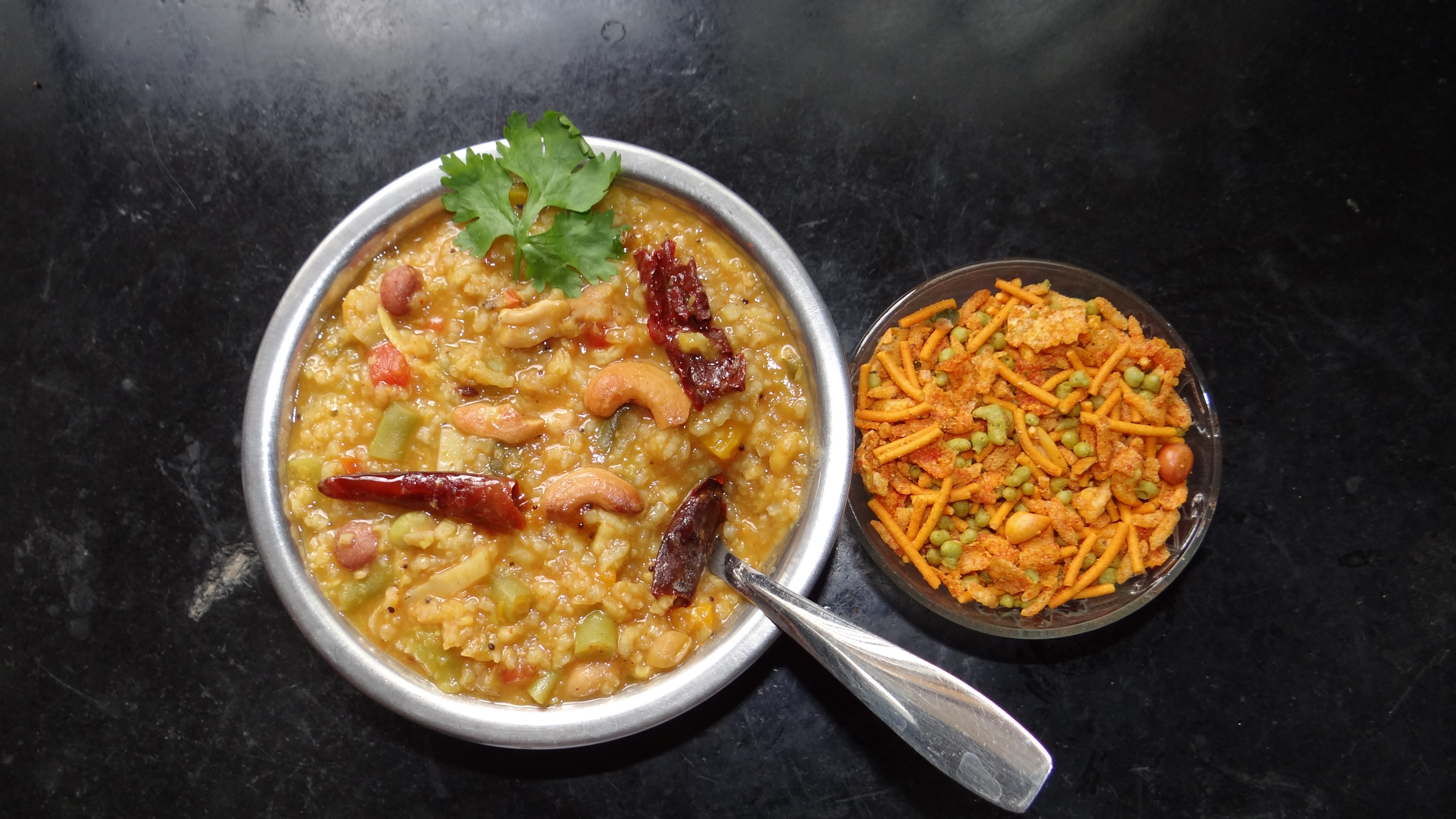 The image is the picture is a famous dish of Karnataka - Bisi Bele Bath. The dish was prepared at home and photo was taken. In Kannada, Bisi = hot, Bele = dal, Bath = rice dish.The main ingredients are dal, vegetables and cashews. The dish is always served hot.Very common dish for breakfast at home and in hotels.